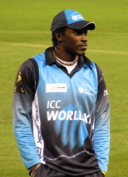 Chris Gayle on the field at the Telstra Dome during an ICC Super Series 2005 cricket match.